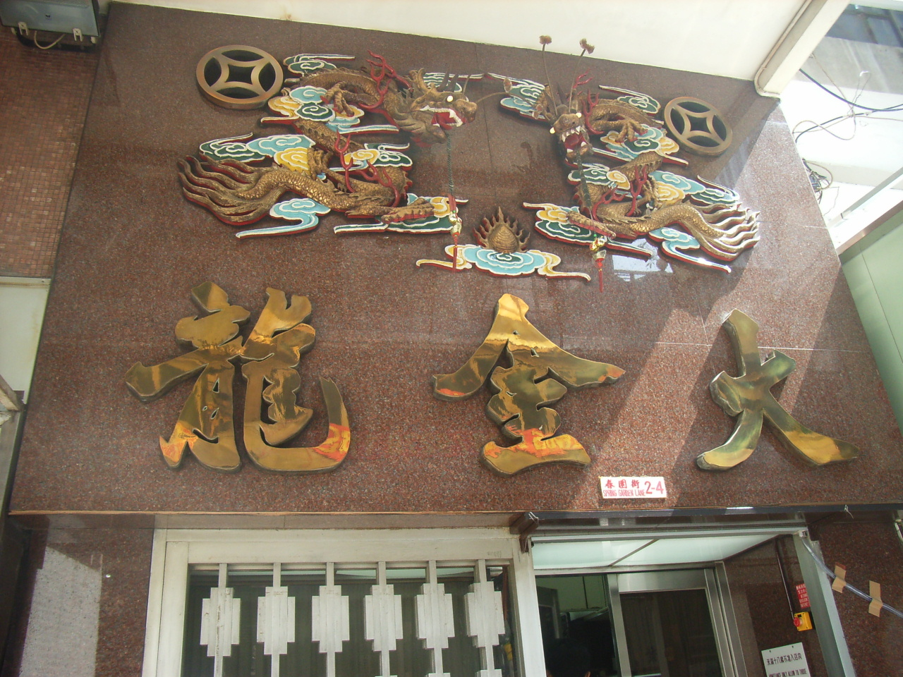 灣仔舊區街道 Wanchai old streets, Hong Kong. (A1 Wong East). 灣仔春園街